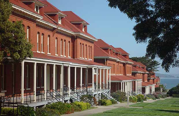 Presidio of San Francisco, Barracks - Parading Ground, Presidio Trust